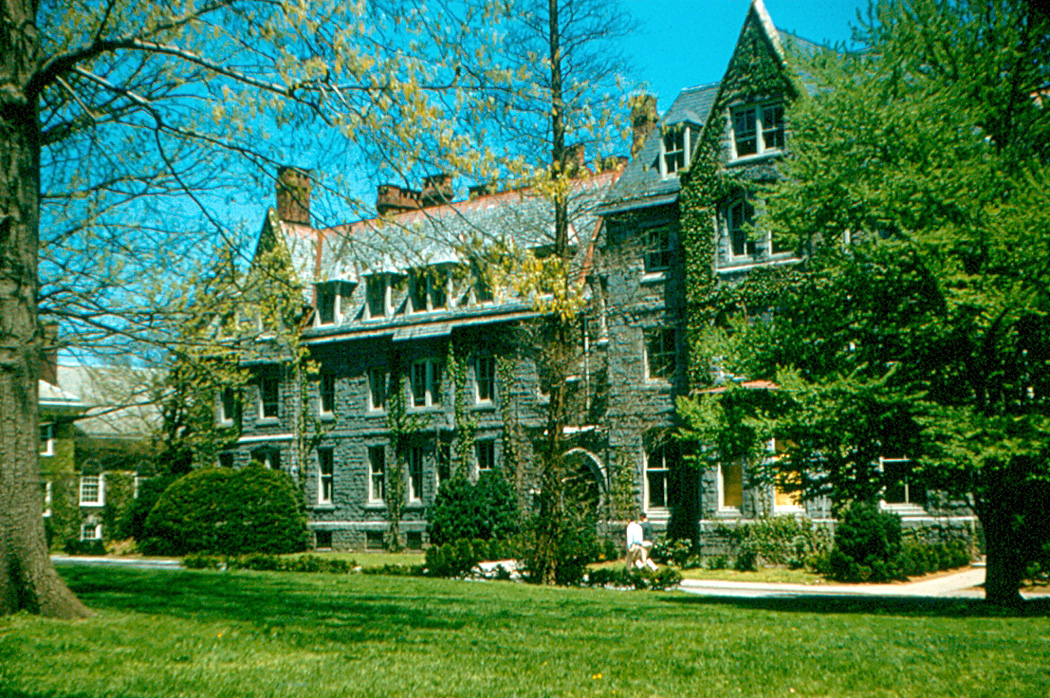 A photograph of Barclay Hall at Haverford College taken in 1958. Barclay Hall was designed by architect Addison Hutton and completed in 1877.